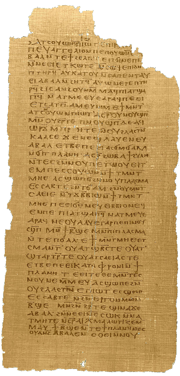 Codex I, papyrus page 17. Gospel of Truth. The Nag Hammadi Library.